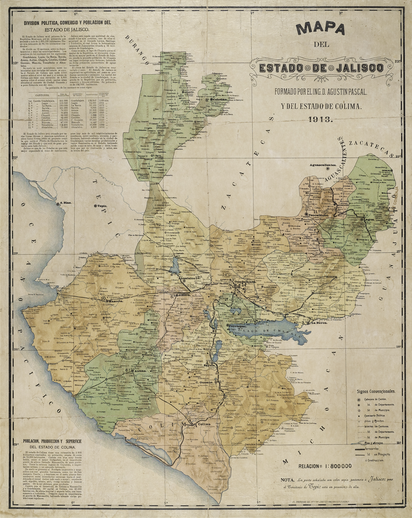 Topographical map of the States of Jalisco and Colima by the Engineer Agustín V. Pascal, 1913